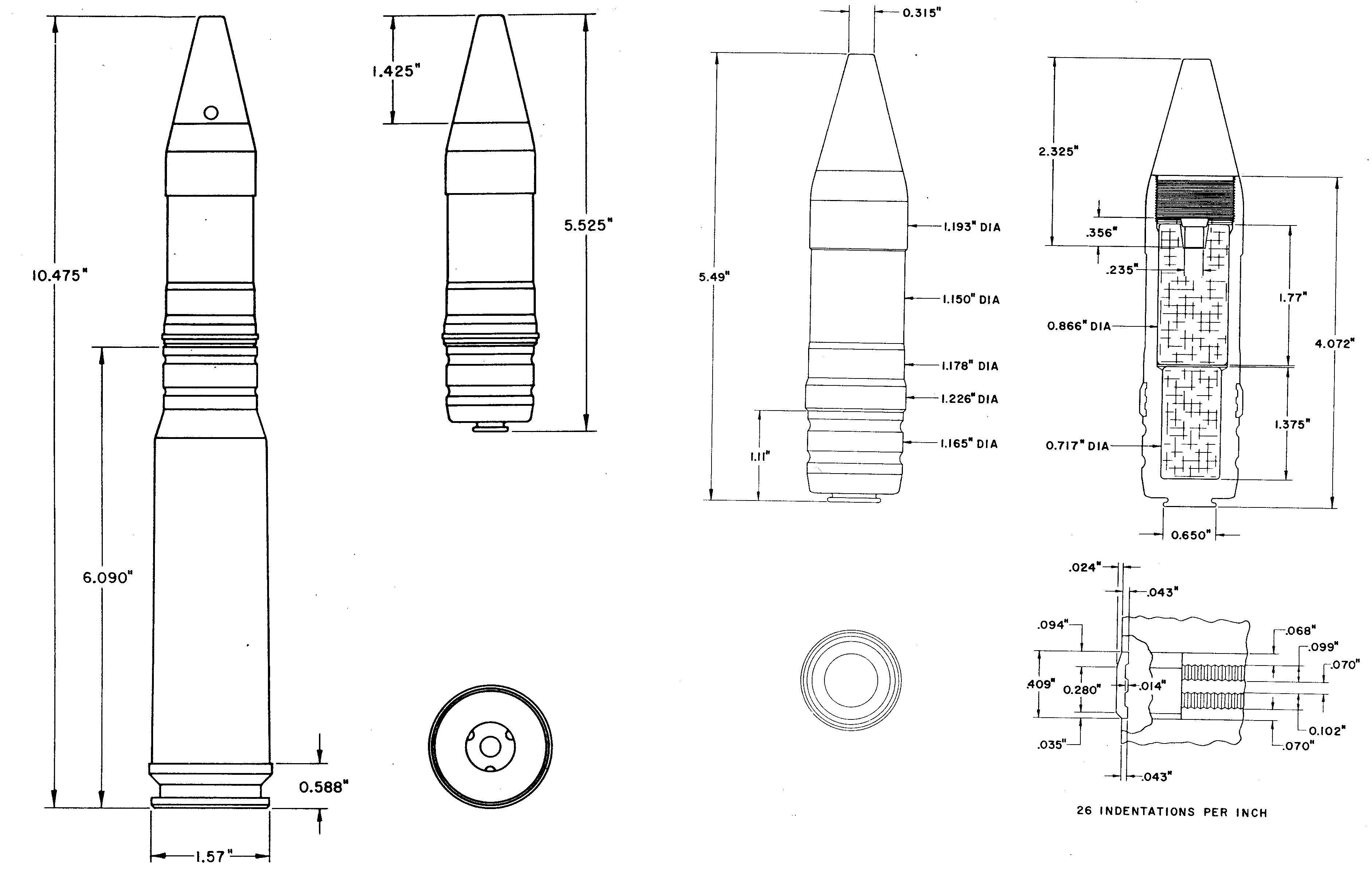 Drawing of a 30 mm model OFZ High-explosive incendiary shell used in 2A42 automatic cannon